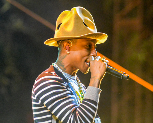 Pharrell Williams at the Coachella Festival 2014. Shot by Shawn Ahmed